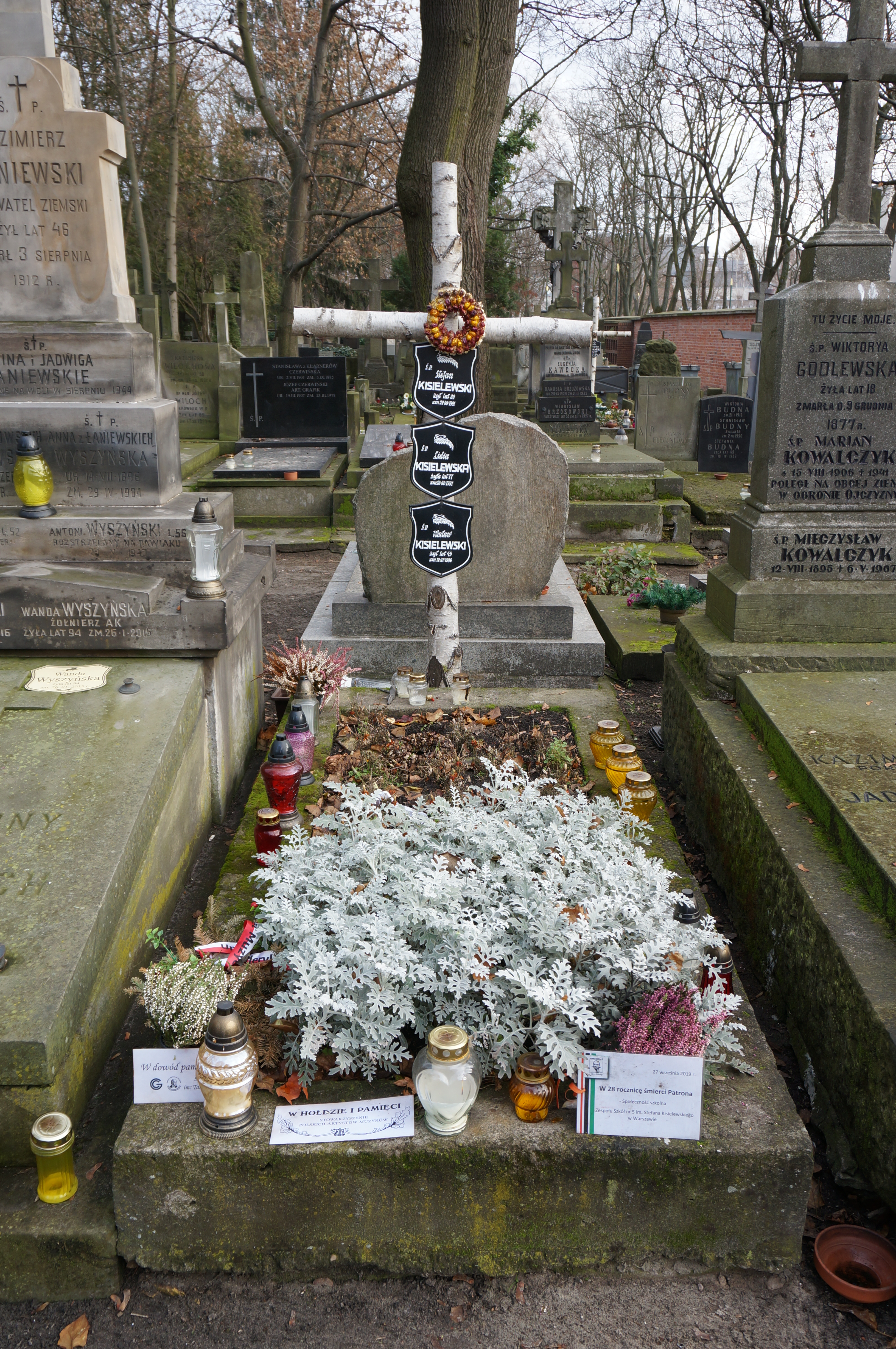 The grave of Wacław Kisielewski at the Powązki Cemetery (section 172, row 6, grave 23)